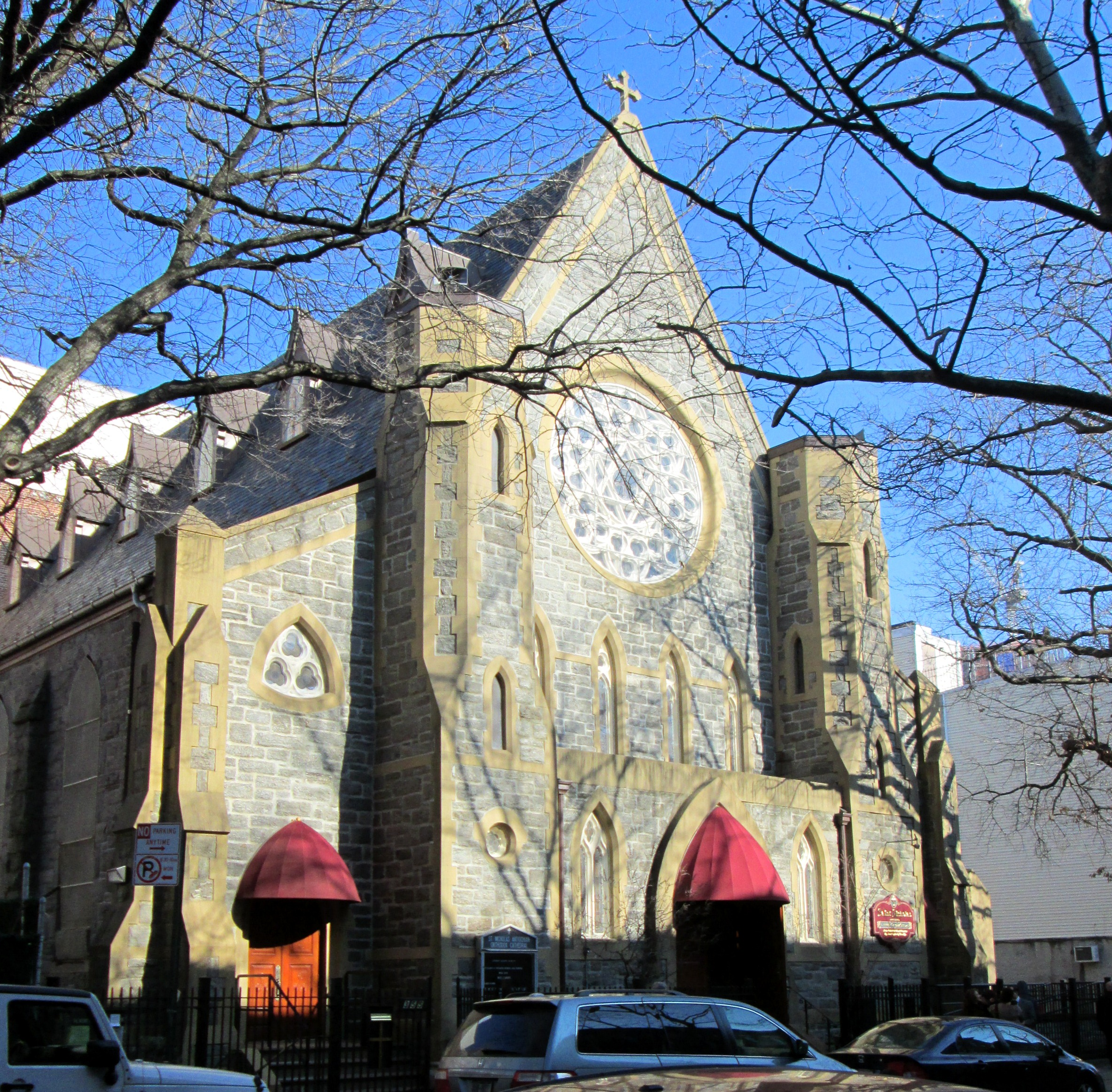 The St. Nicholas Antiochian Orthodox Cathedral at 355 State Street between Hoyt and Bond Streets in the Boerum Hill neighborhood of Brooklyn, New York City was originally built as St. Peter's Episcopal Church. The St. Nicholas congregation was founded by Arabic-speaking Orthodox Christians in Manhattan in 1895, in a loft at 77 Washington Street. They moved to 301-303 Pacific Street in Brooklyn in 1902, and purchased the present building in 1920. Because of financial difficulties they lost the property, but were able to lease in on a monthly basis, although they were later able to re-purchase the church, but not the connecting property. St. Nicholas Cathedral is the oldest continuous church in the Archdiocese and its only Mother Cathedral. (Source: "History" on church website)